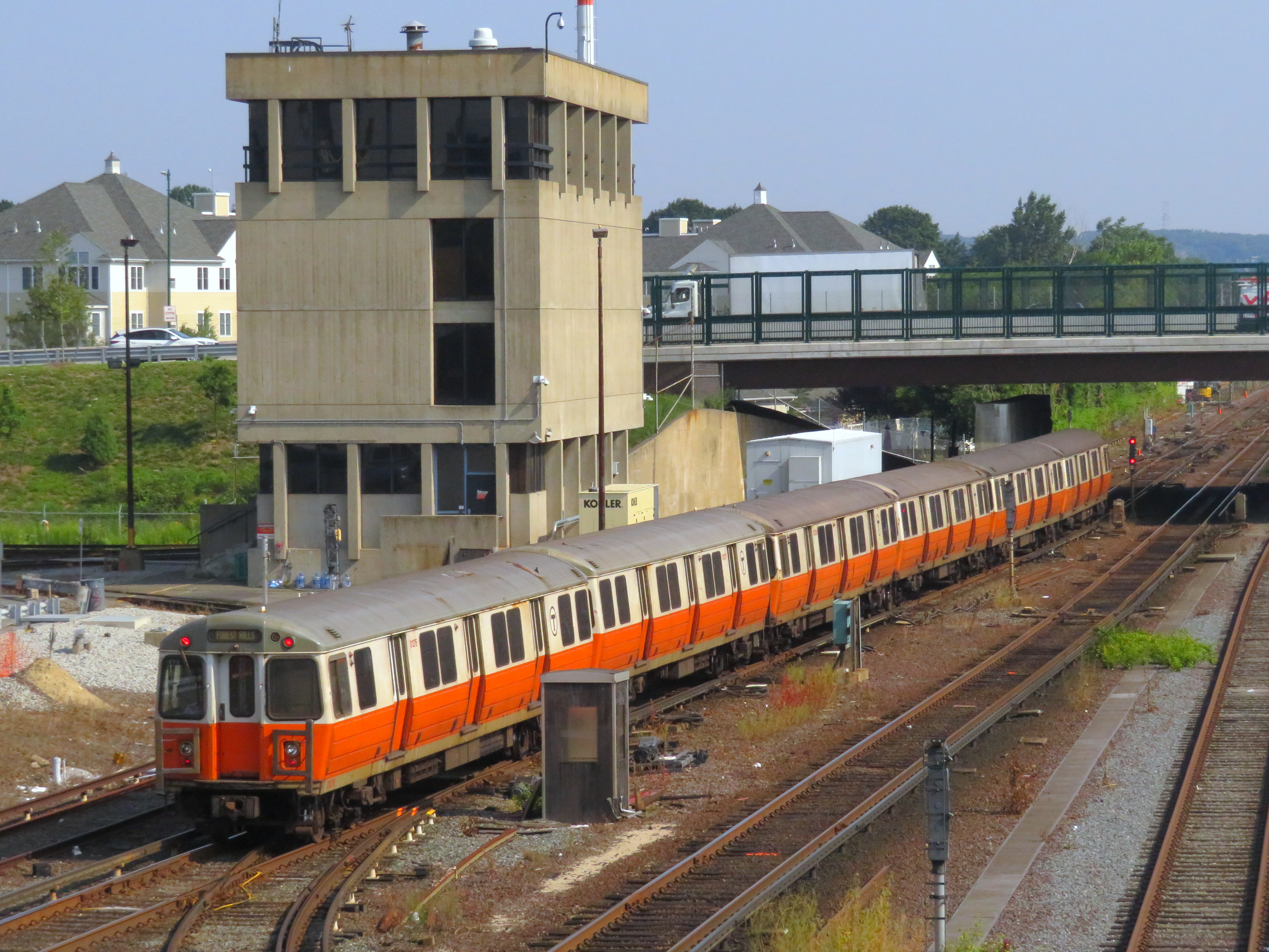 An inbound Orange Line train passing the Wellington Yard signal tower while approaching Wellington station in July 2019